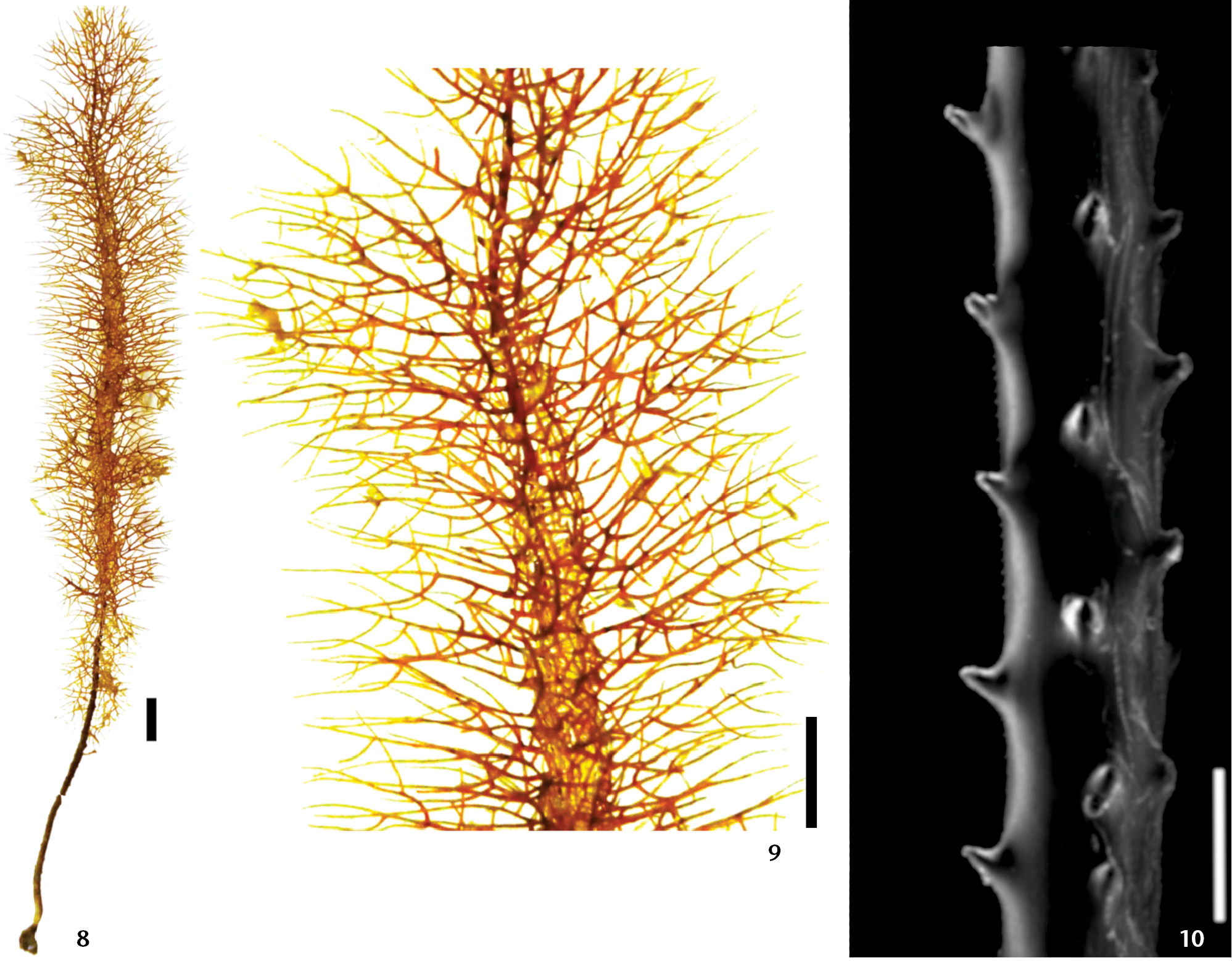 Figures 8–10; (8) Corallum morphology of Stylopathes adinocrada; (9) pinnulation pattern of S. adinocrada, showing the “worm run"; (10) organization of spines in S. adinocrada. Scale bars: 8–9 = 10 mm, 10: 100 µm.